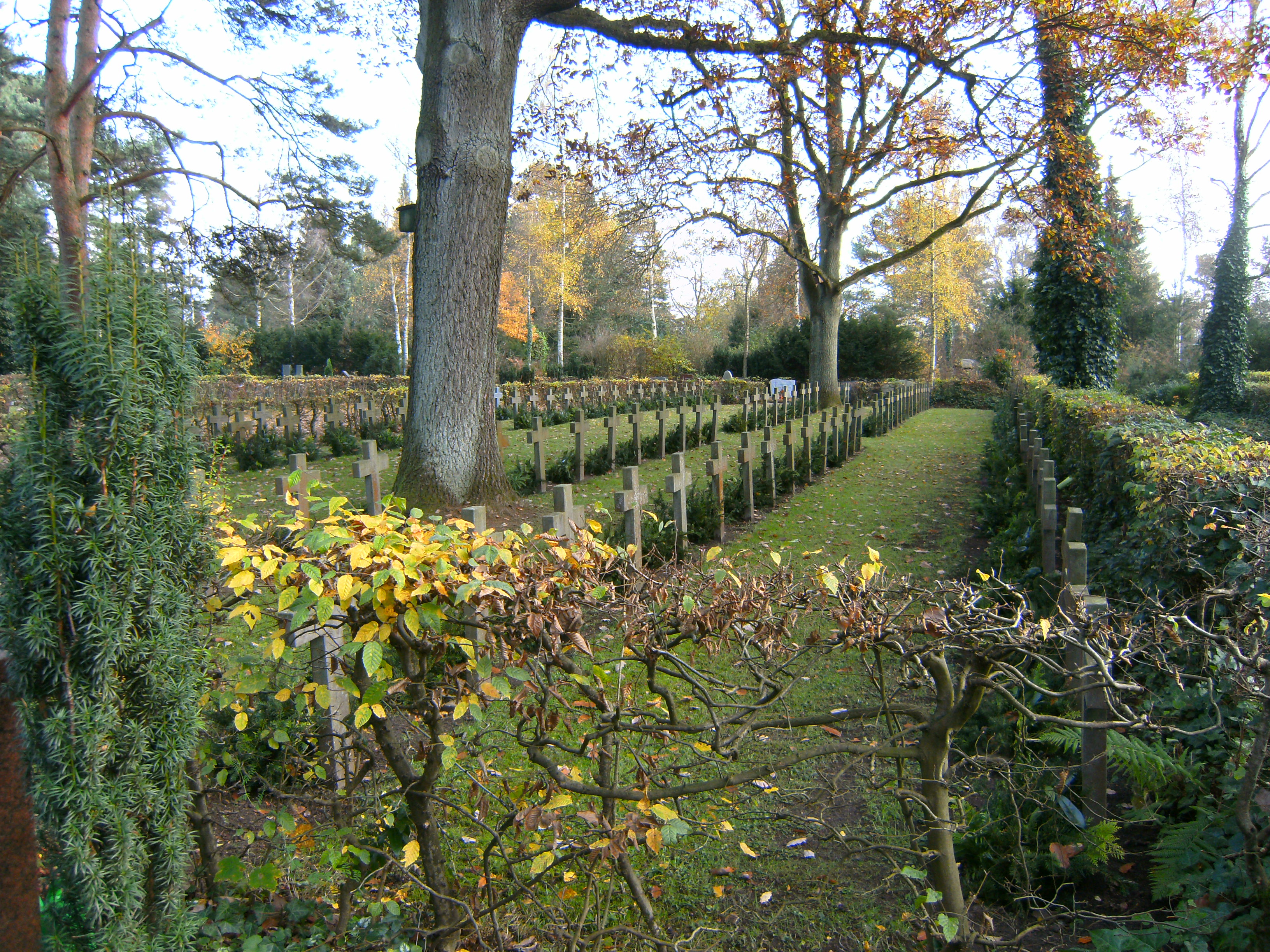 Cemetery Waldhusen (Friedhof Waldhusen) in Lübeck-Kücknitz: grave area with graves short after end of World War II.